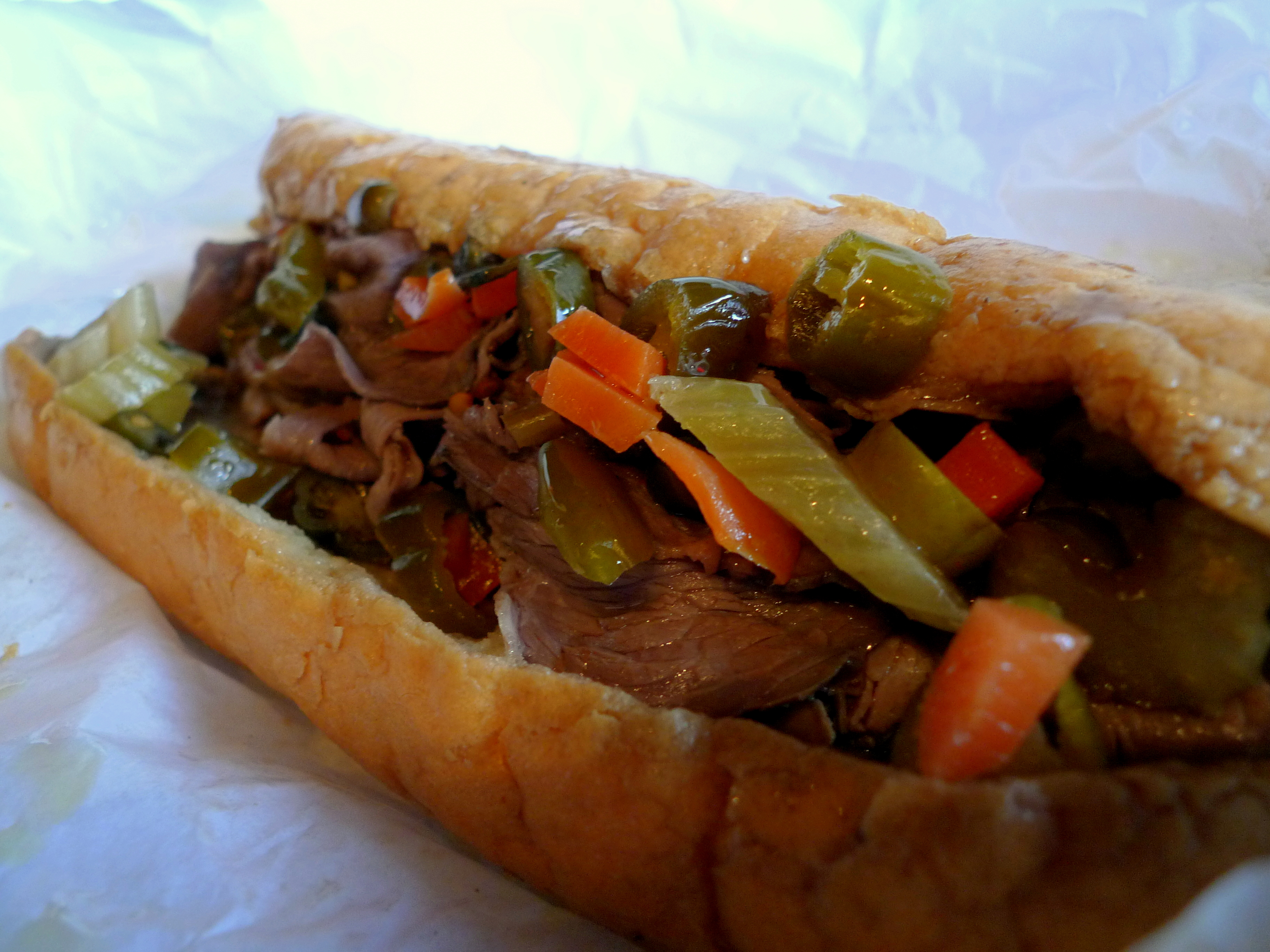 @ Chicago's Windy City Hot Dogs Location: Chicago.